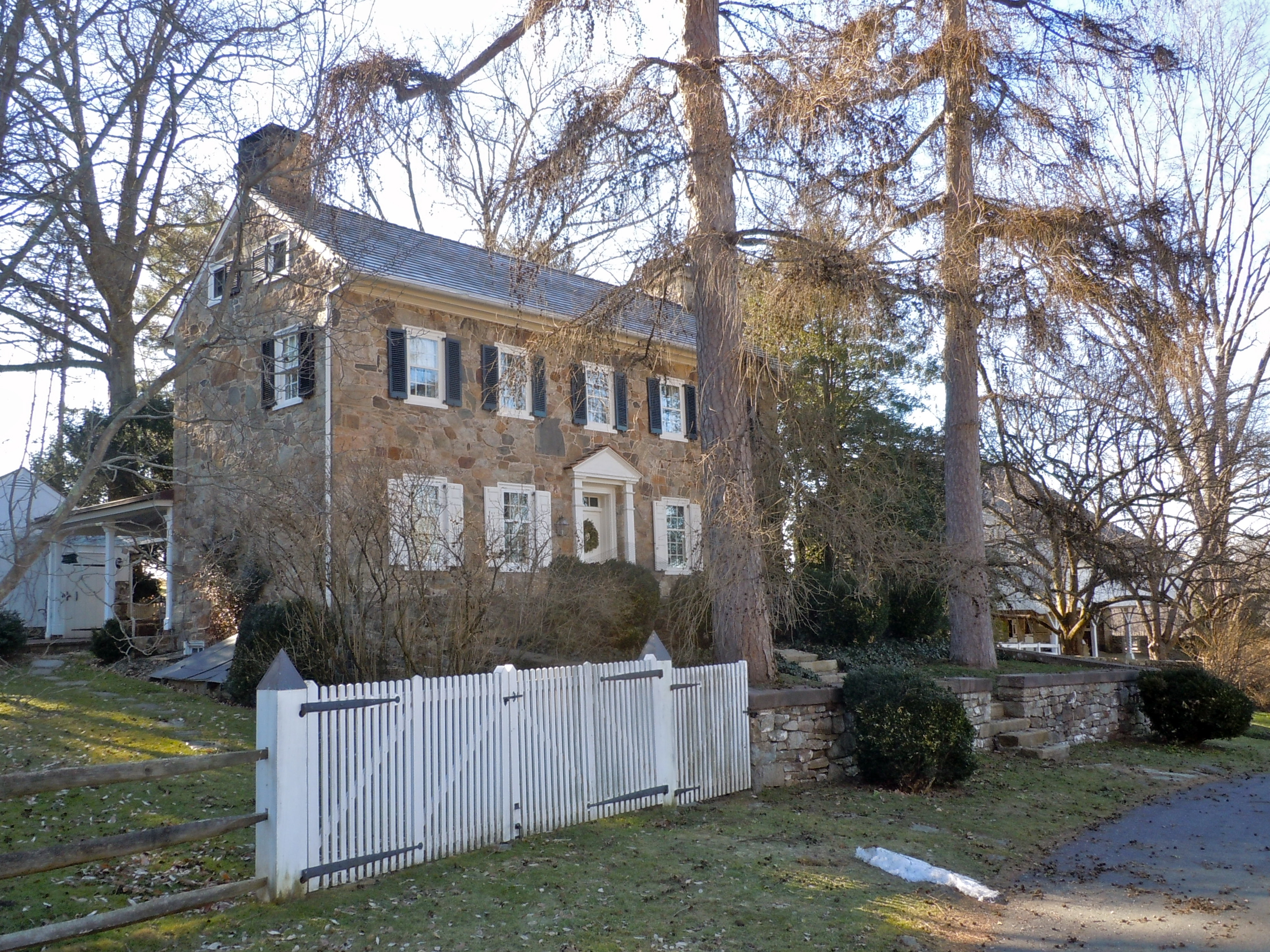 George Hartman House on the NRHP since March 26, 1976. Located west of Phoenixville on Church Road in East Pikeland Township, Chester County, Pennsylvania. Not far from PA 100 (Pottstown Pike), but the bridge is out and being fixed.